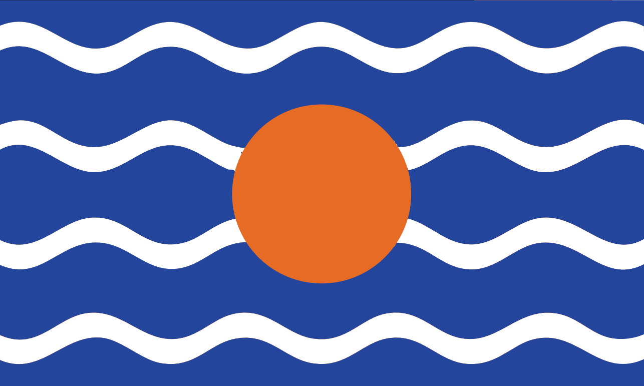 Flag of the West Indies Federation, according to the West Indies Federal Archives Centre at the University of the West Indies, Cave Hill Campus (